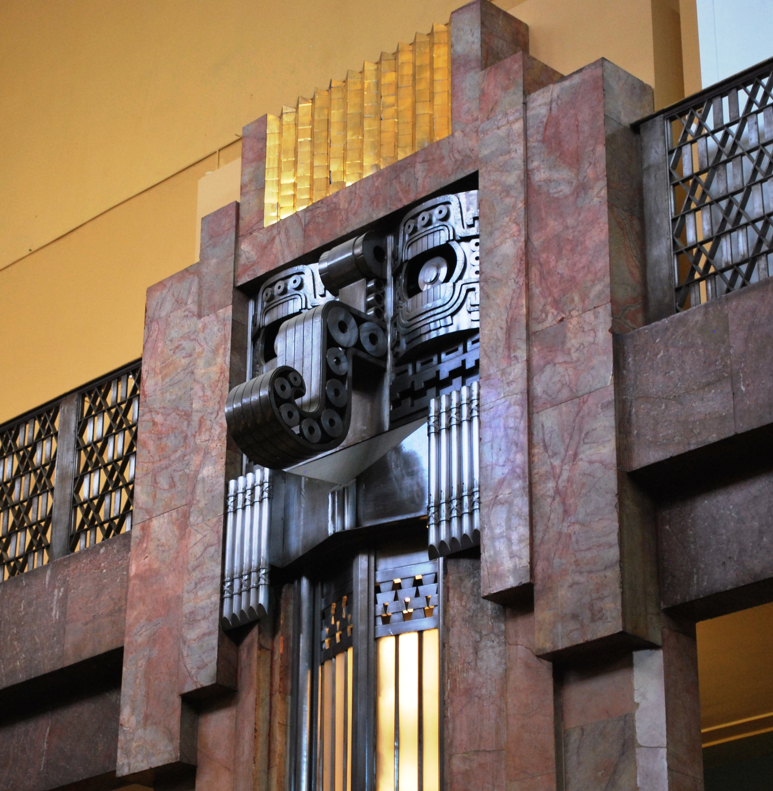 Decorative figure based on Maya design at the Palacio de Bellas Artes in Mexico City